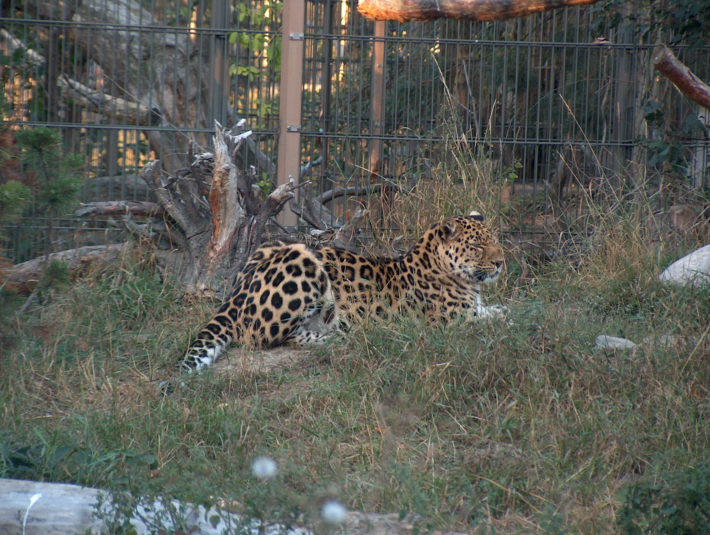 Panthera pardus orientalis, Amur leopard - Korkeasaari Zoo, Finland